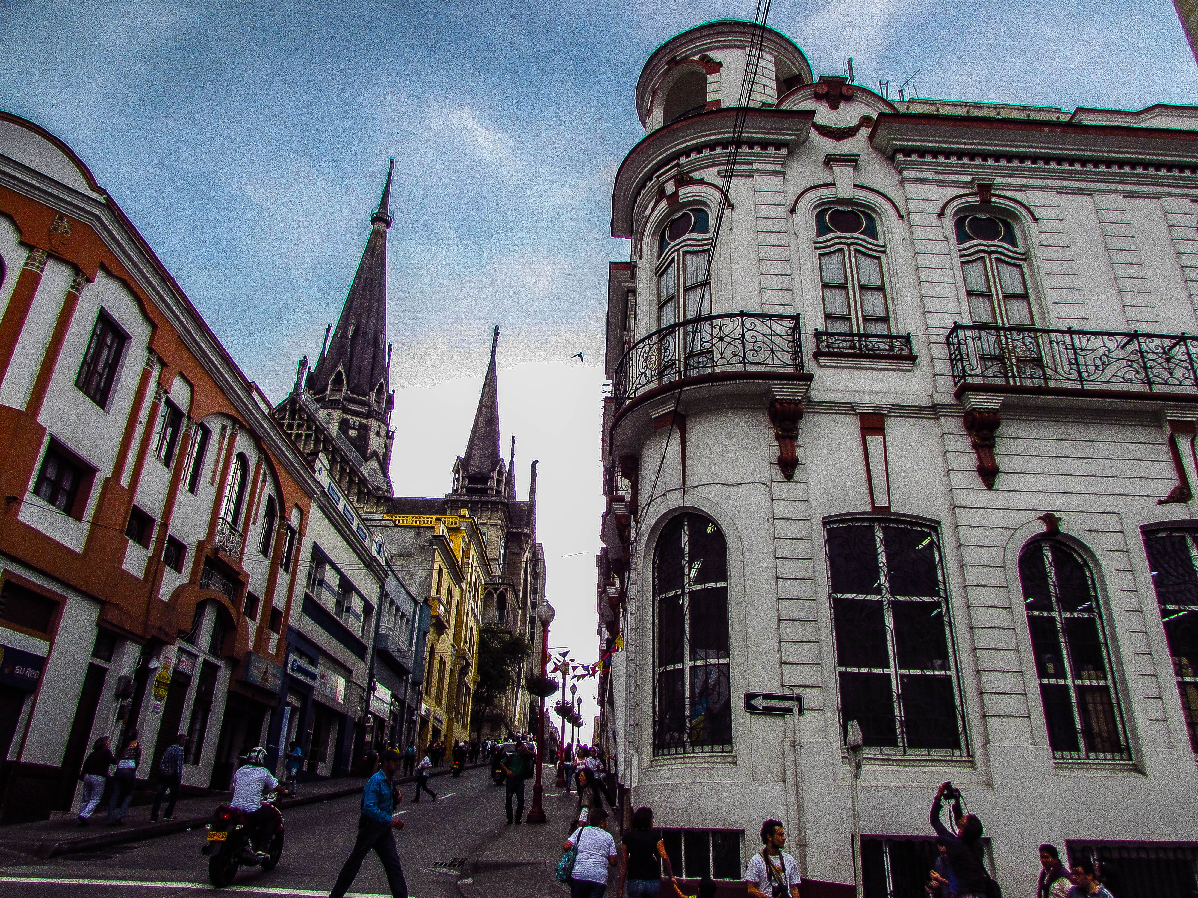 centro histórico de Manizales